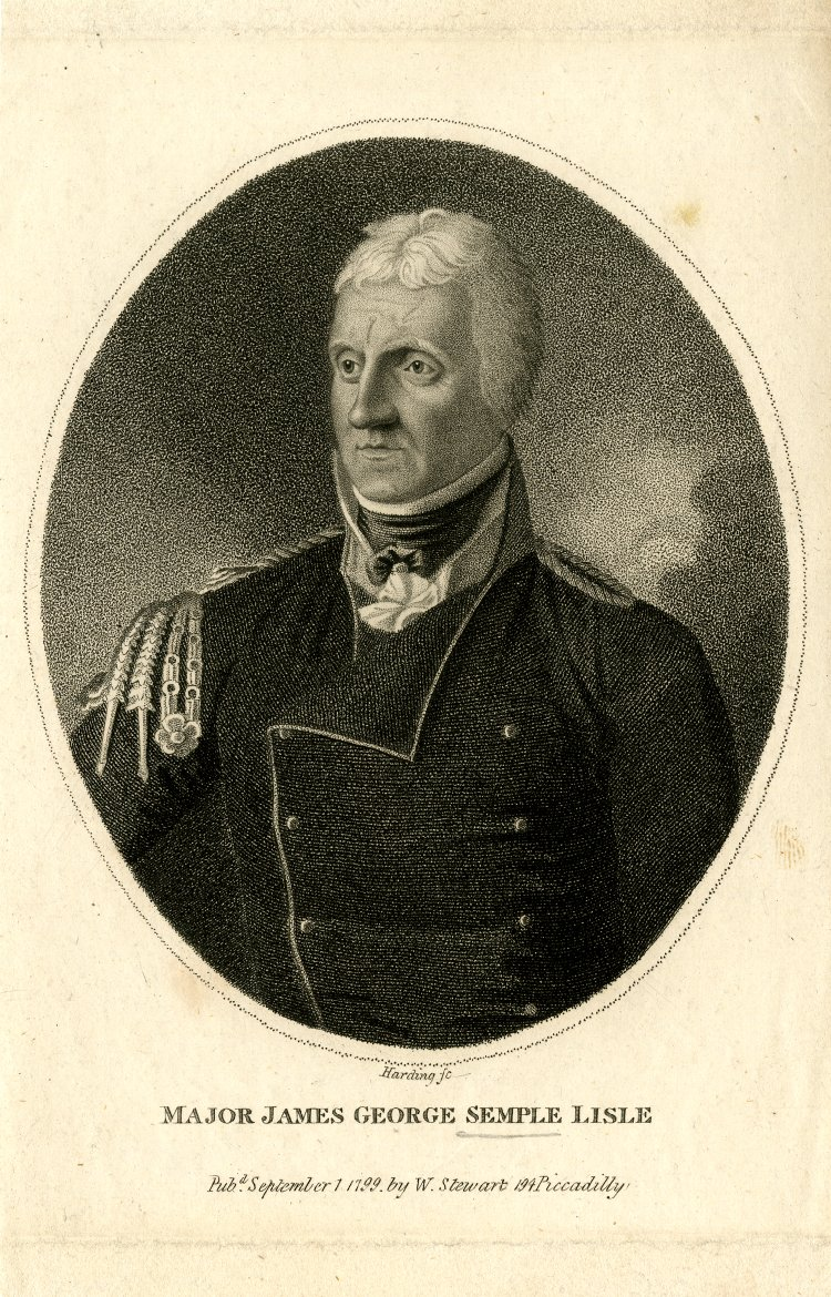 Portrait of James George Semple Lisle (1759–1815), Scottish adventurer and confidence trickster.